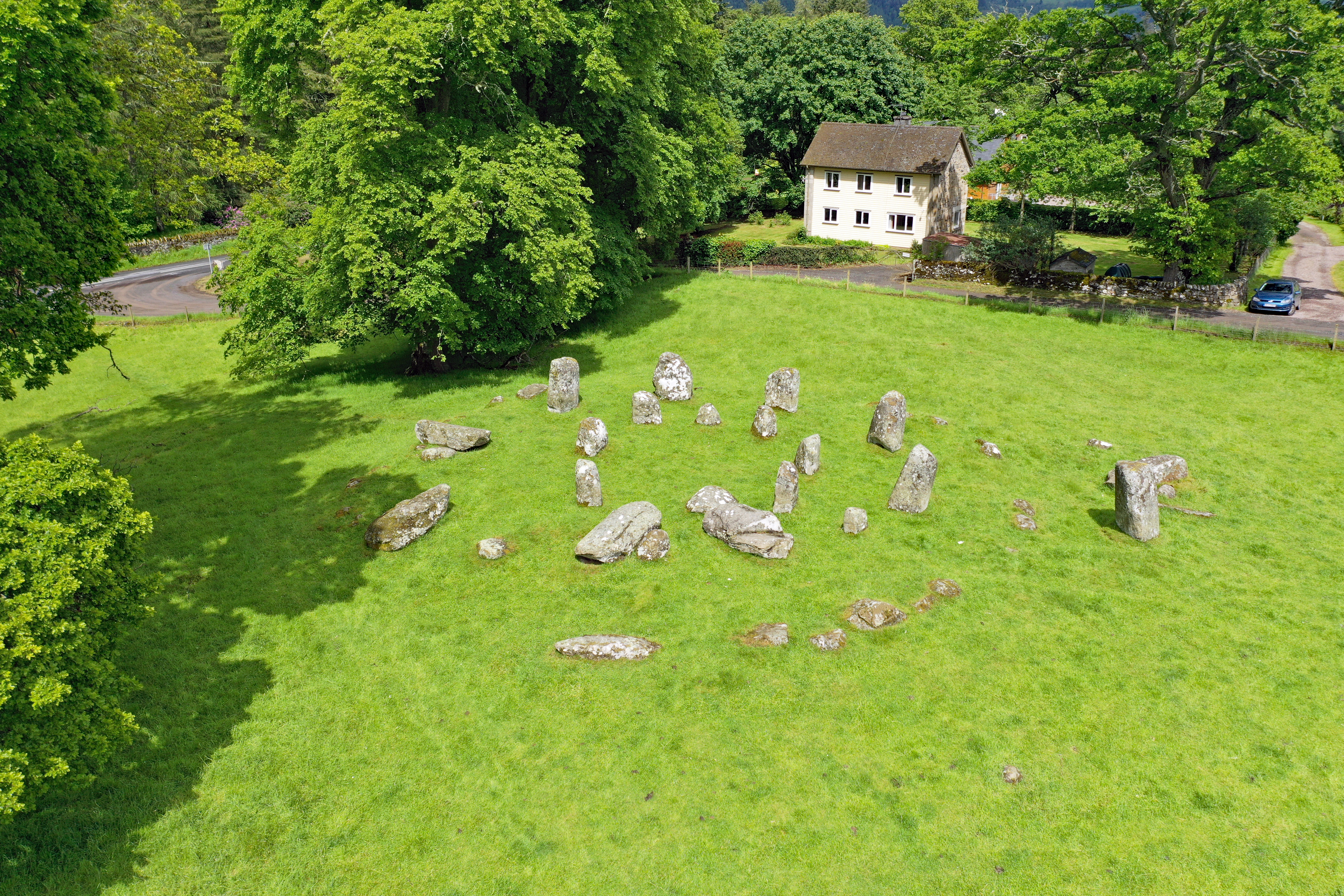 Croft Moraig Stone Circle (Perth & Kinross, Scotland, UK)